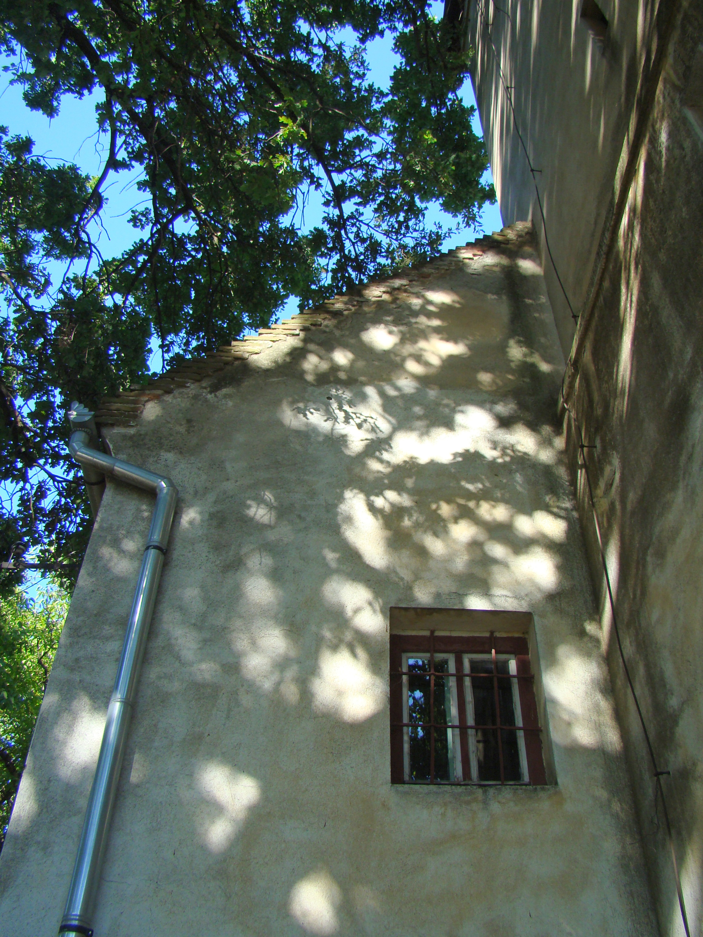 Franciscan monastery in Vințu de Jos, Alba county, Romania 01